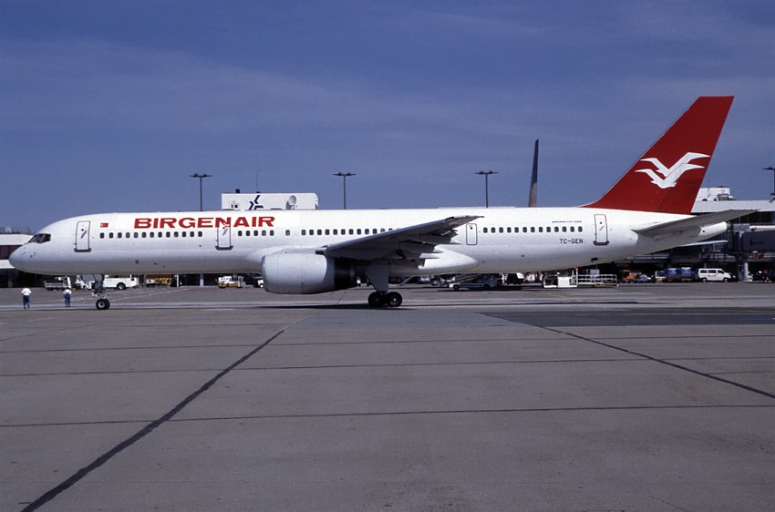 Boeing 757 TC-GEN der Birgenair, die Unglücksmaschine des Birgenair-Fluges 301. Aufgenommen am Flughafen Berlin Schönefeld. Birgenair's Boeing 757 TC-GEN, the plane that crashed as Flight 301 off the Coast of Puerto Plata on February 6th, 1996. Picture taken at Schoenefeld Airport in Berlin, Germany.